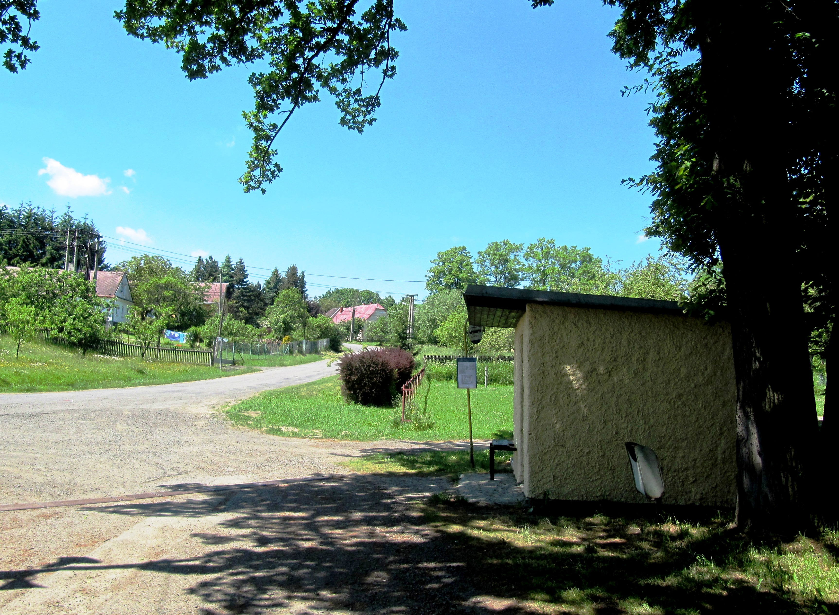 Vítkov, Opava District, Czech Republic, part Lhotka.